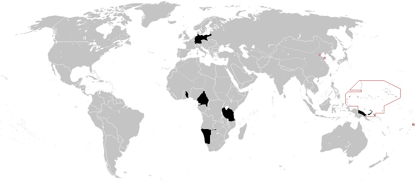 The German Empire and its colonial possessions in 1914. Note : Kaiser-Wilhelmsland, South pacific Islands and Nauru constitute the protectorate of New-Guinea.